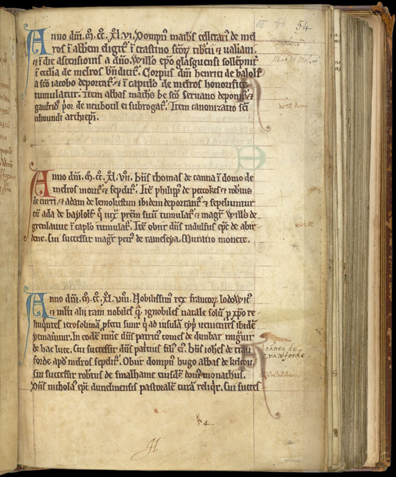 Folio 55r from Cotton MS Faustina B IX. This is the oldest surviving copy of the Chronicle of Melrose.